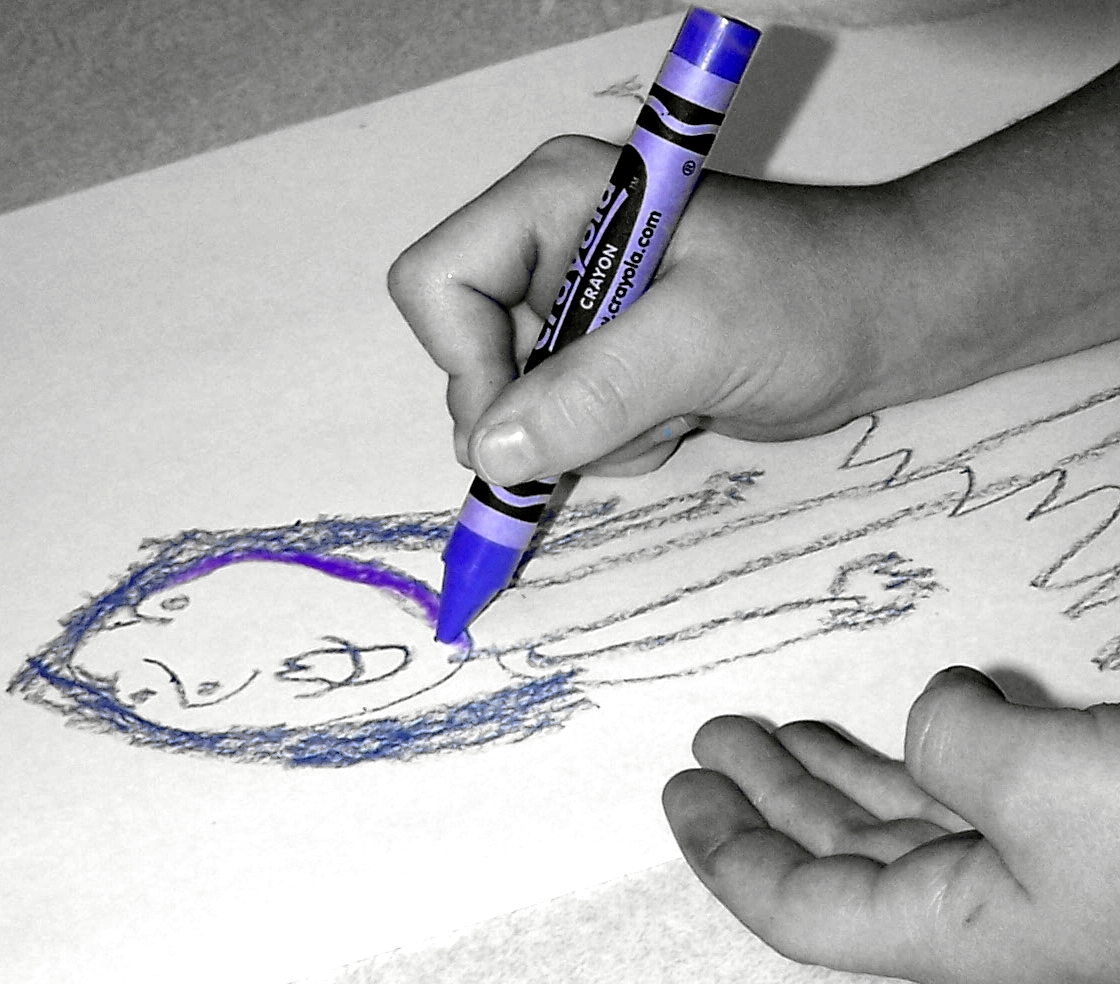 First day of school. Little girl with a blue crayon. Family fun. Free for use My photos that have a creative commons license and are free for everyone to download, edit, alter and use as long as you give me, "D Sharon Pruitt" credit as the original owner of the photo. Have fun and enjoy!